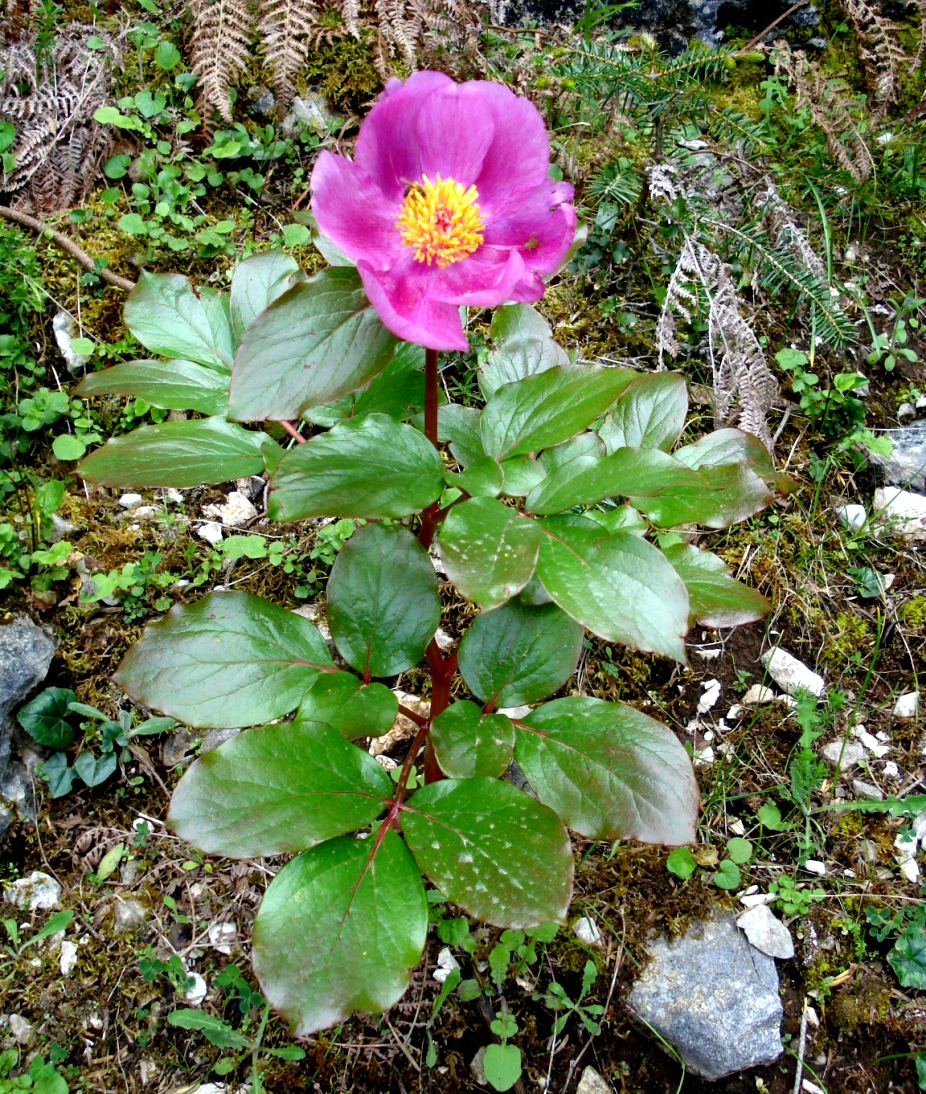 This is a photography of Natura 2000 protected area with ID GR2220002